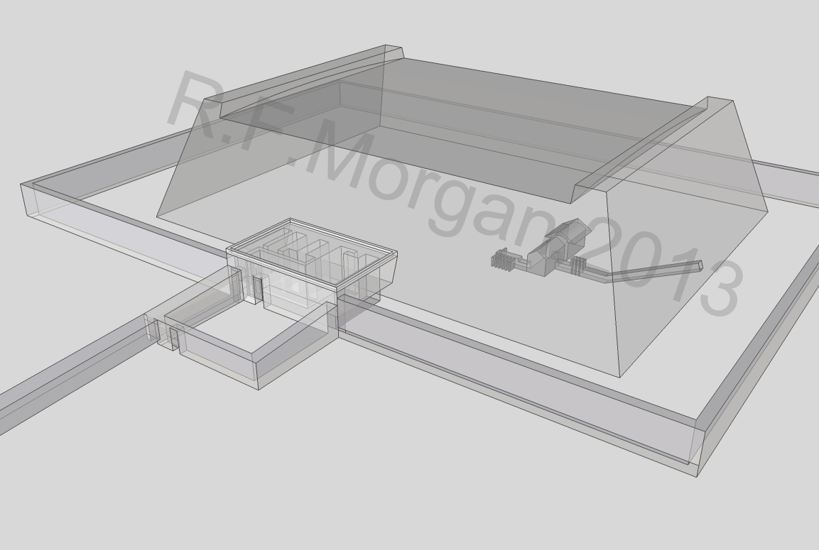 Isometric image of the mastaba of Shepseskaf taken from a 3d image